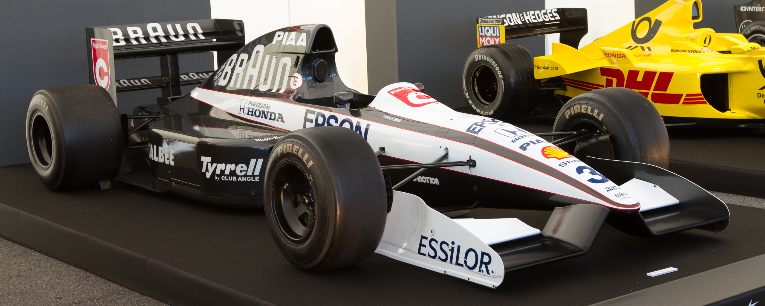 Formula One 2012 Rd.15 Japanese GP: Tyrrell 020 (1991, Satoru Nakajima's car)